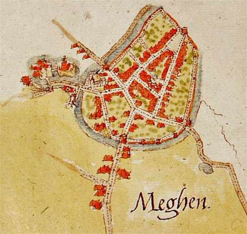 Nederland, Noord-Brabant, Map of Megen from 1558